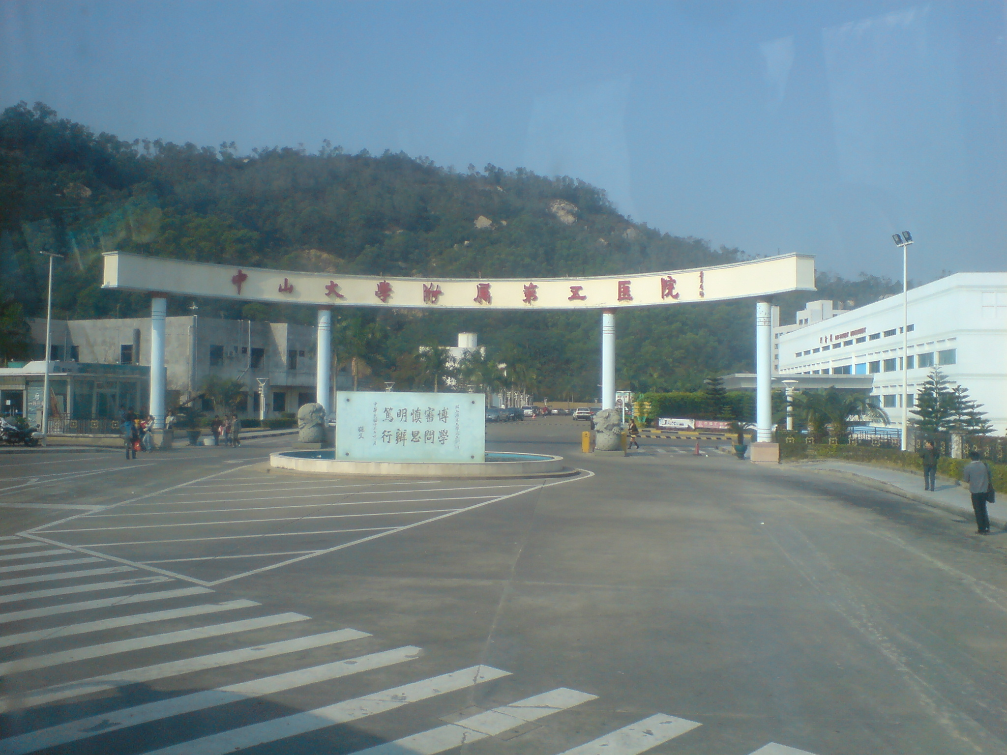 Entrance of the 5th hospital of the Zhuhai Sun Yat-sen university annexe.